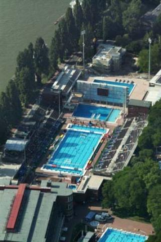 Margitsziget, Budapest, Hungary, aerialphotography